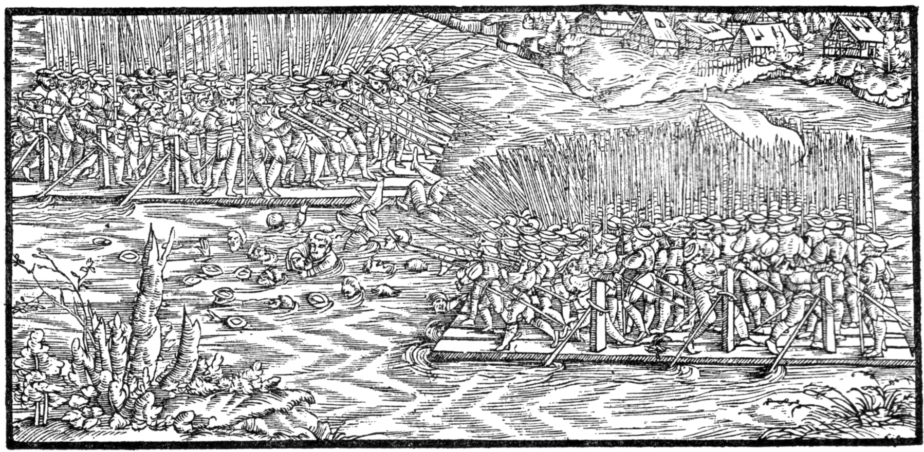 Battle on the Lake of Zurich during the Old Zurich War. Woodcut from the cronicle of Stumpf 1548